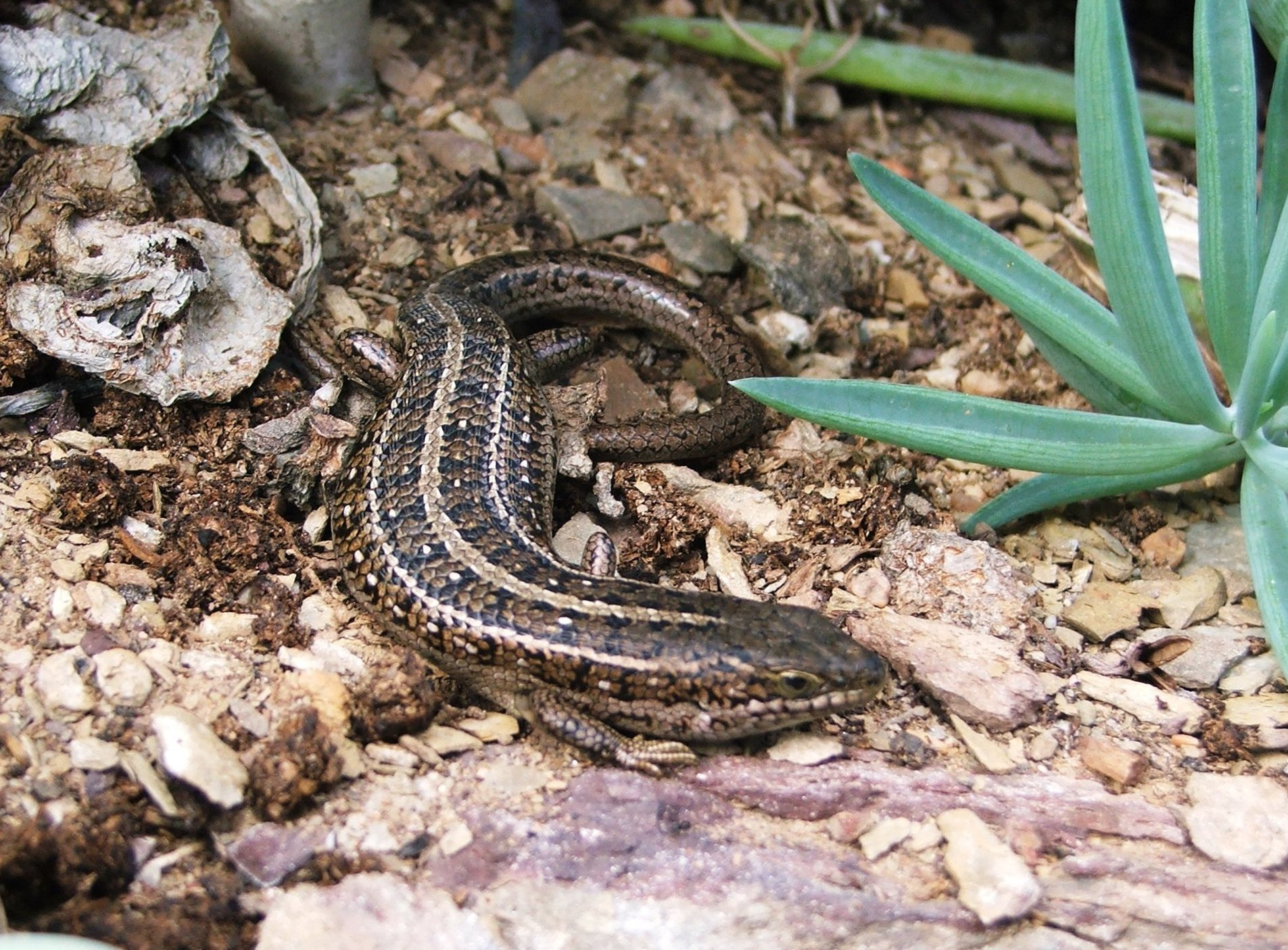 The Cape Skink. South Africa.